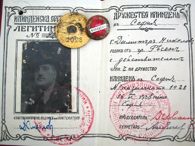 Ilinden Organisation Card of Dimitar Nikolov from Resen